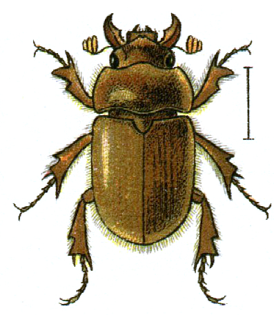 Codocera ferruginea